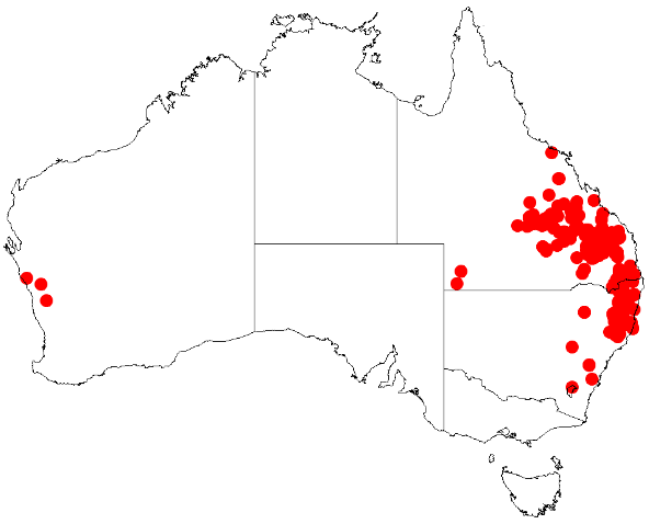 Acacia blakei Occurrence data from Australasian Virtual Herbarium downloaded from on 8 December 2018